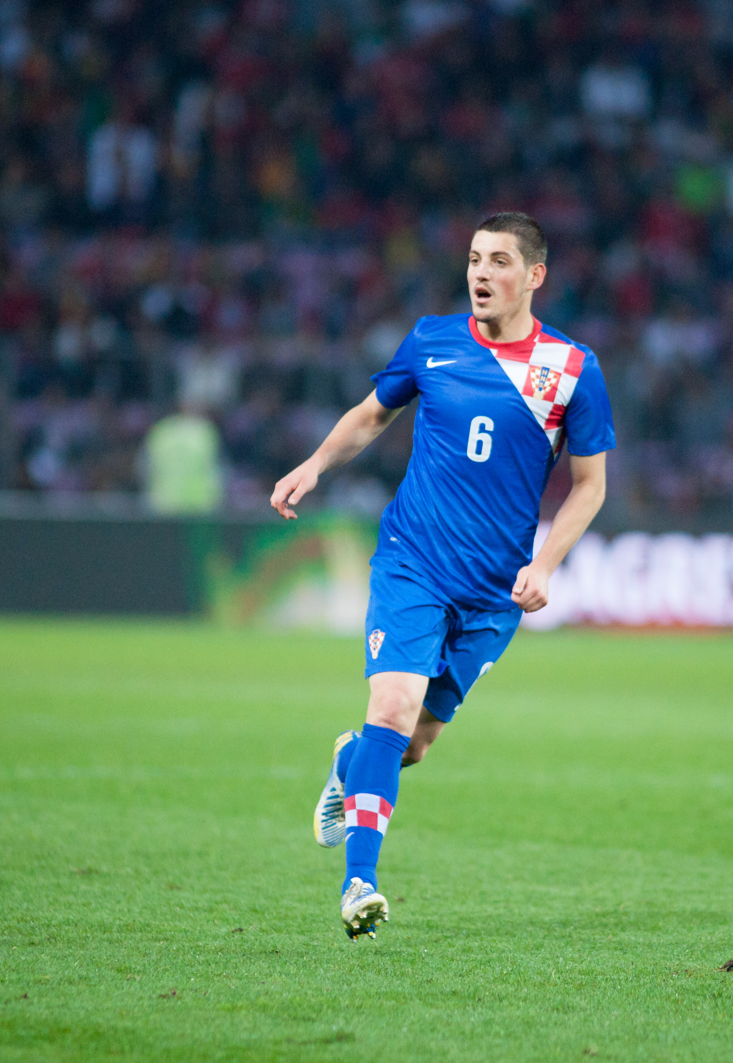 Croatia vs. Portugal, 10th June 2013